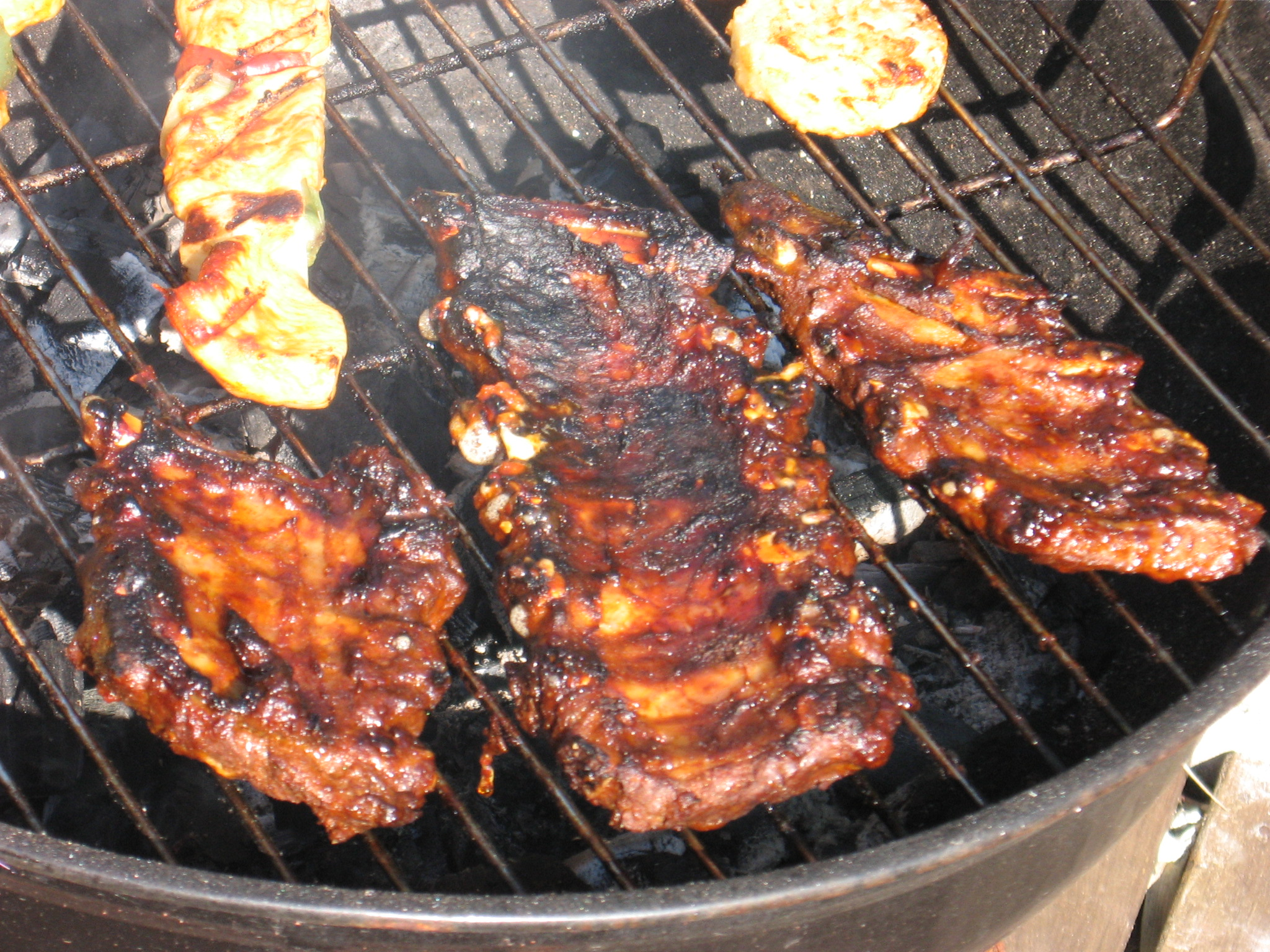 spare ribs on the barbeque